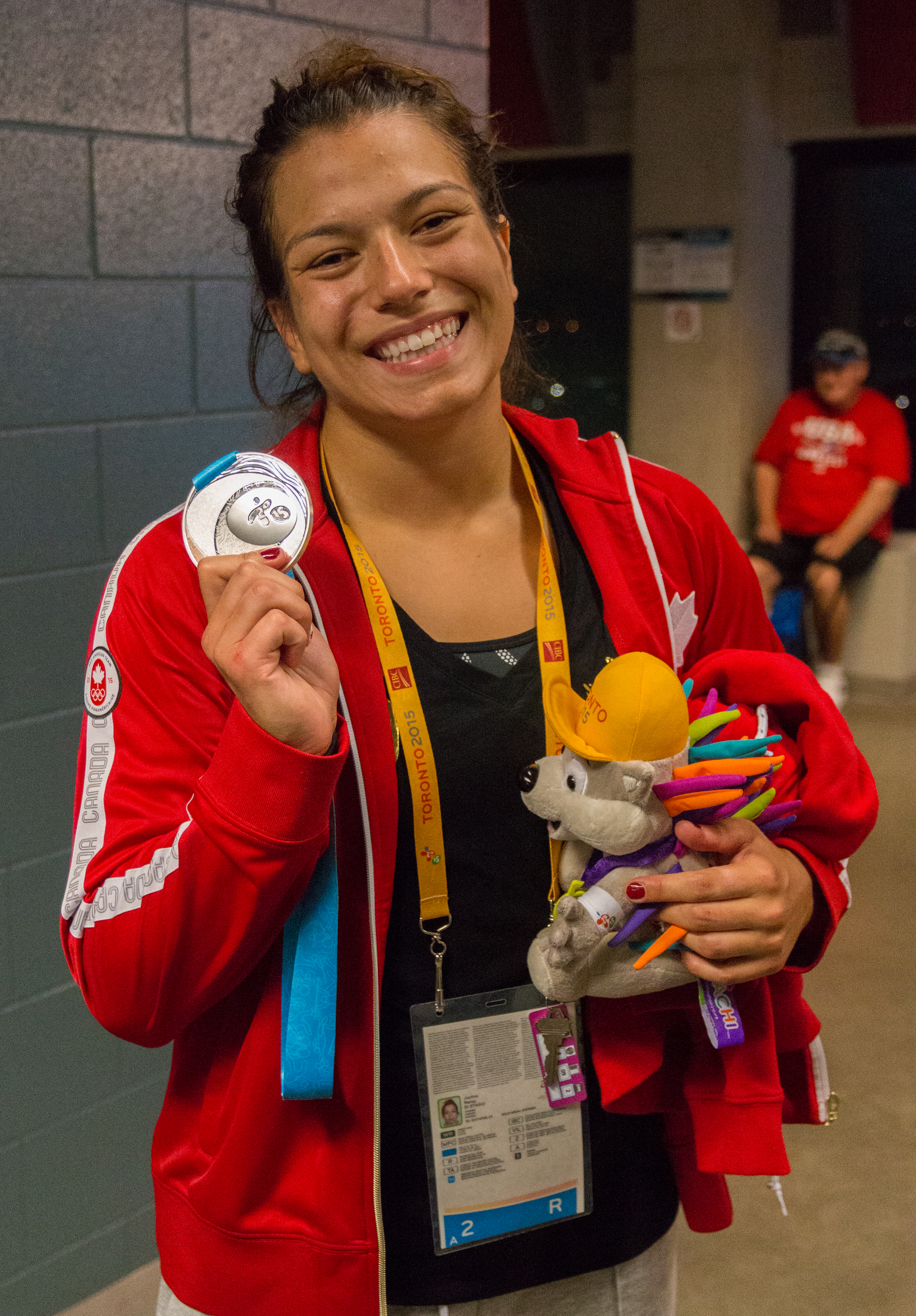 Justina Di Stasio at 2015 Pan Am Games showing her silver medal in women's freestyle wrestling